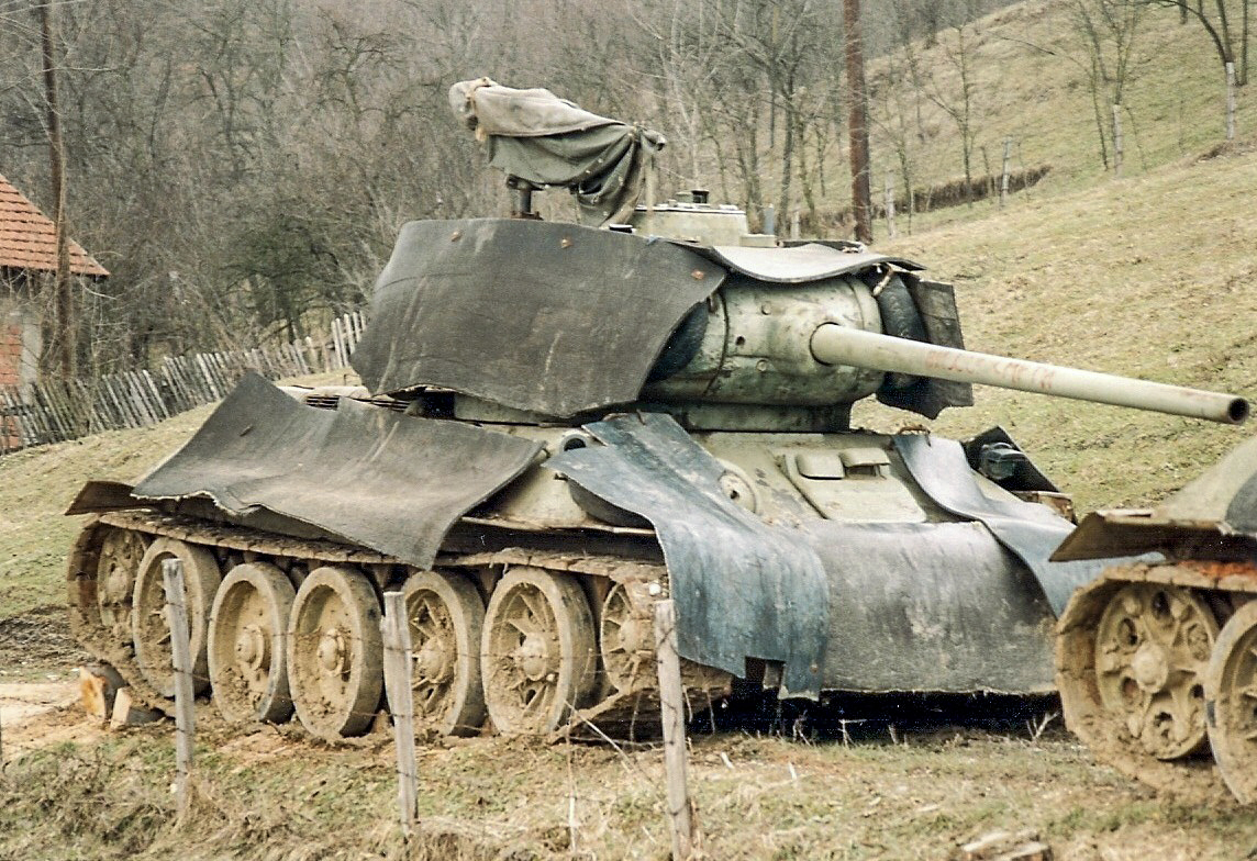 Serbian T-34/85 being drawn away from the frontline near Doboj spring 1996